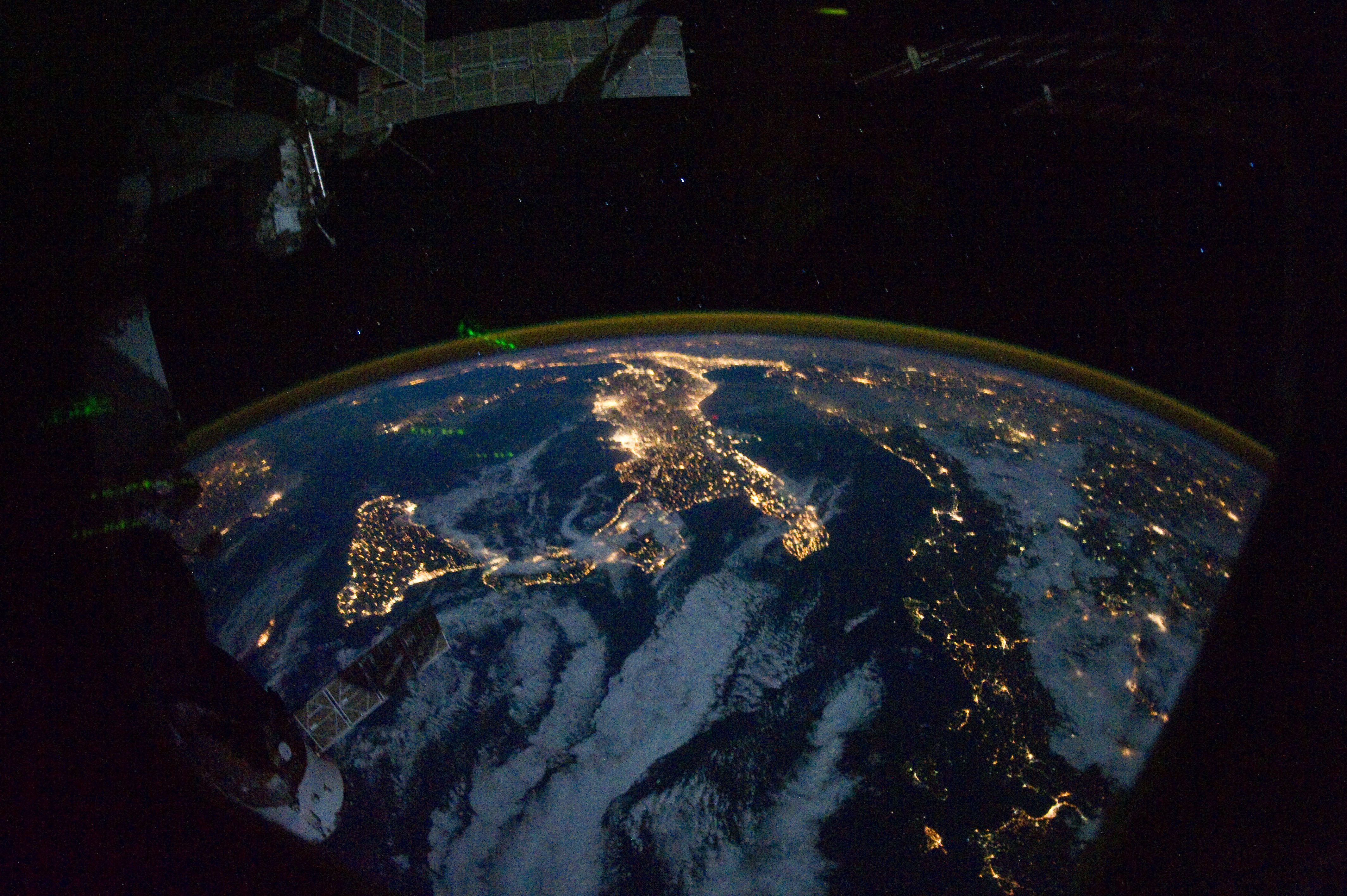 Photo of Italy at night from the International Space Station.